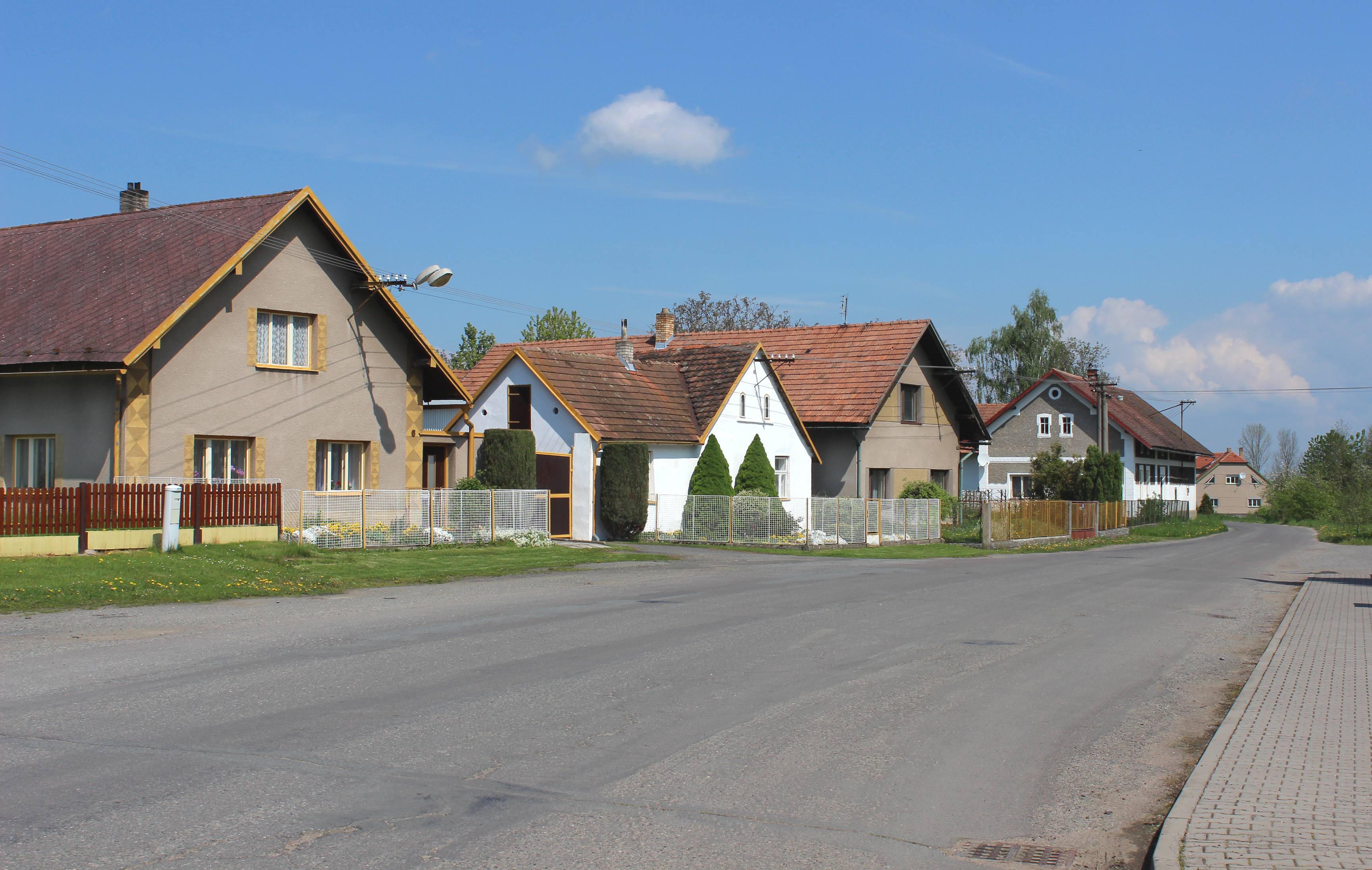 Common in Oldřetice, part of Raná village, Czech Republic